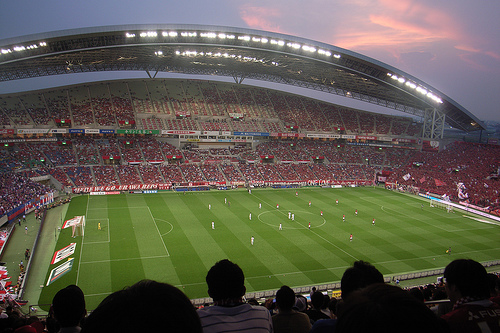 Saitama Stadium in Japan. Urawa Red Diamonds are playing FC Tokyo.